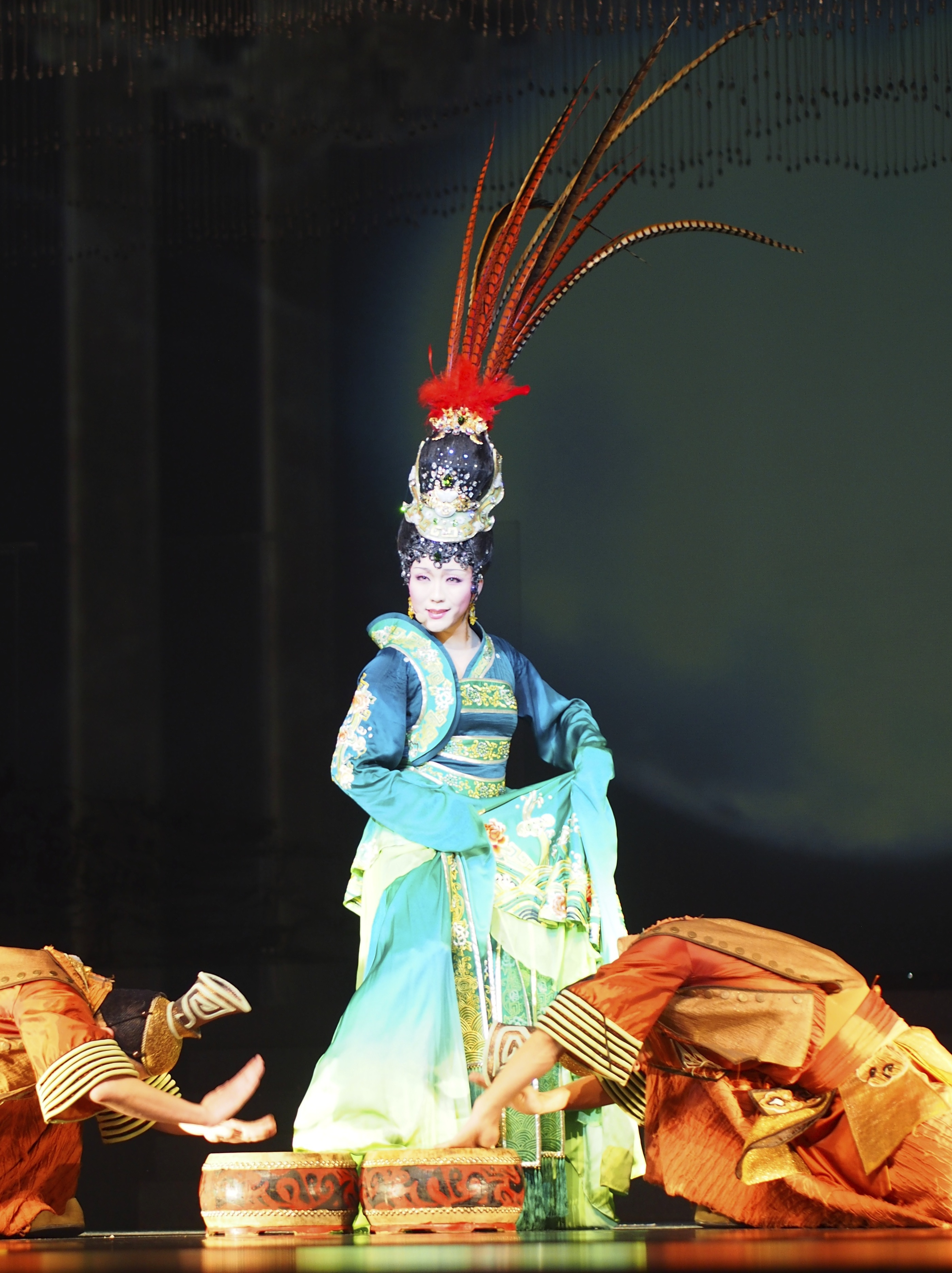 One of Li Yugang's stage performance "Portrait of Four Ancient Chinese Beauties"'s characters named : Diao Chan